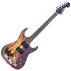 Image form a Custom Washburn X16 "Skull" Guitar. Self-made with photoshop programs